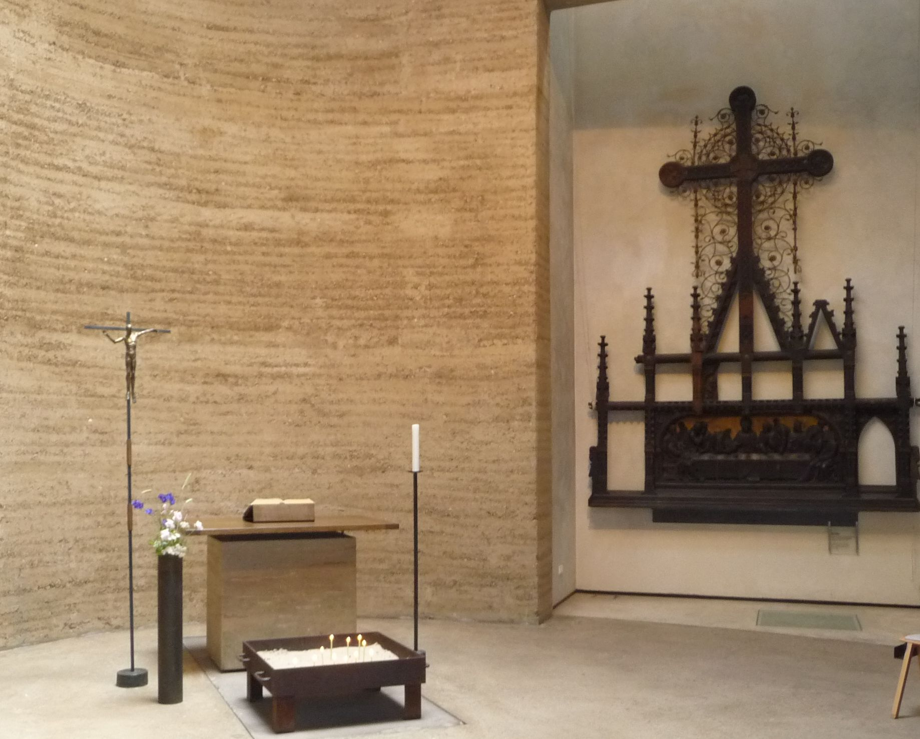 Kapelle der Versöhnung in Berlin